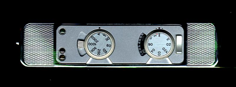 Limited edition Minox CLX